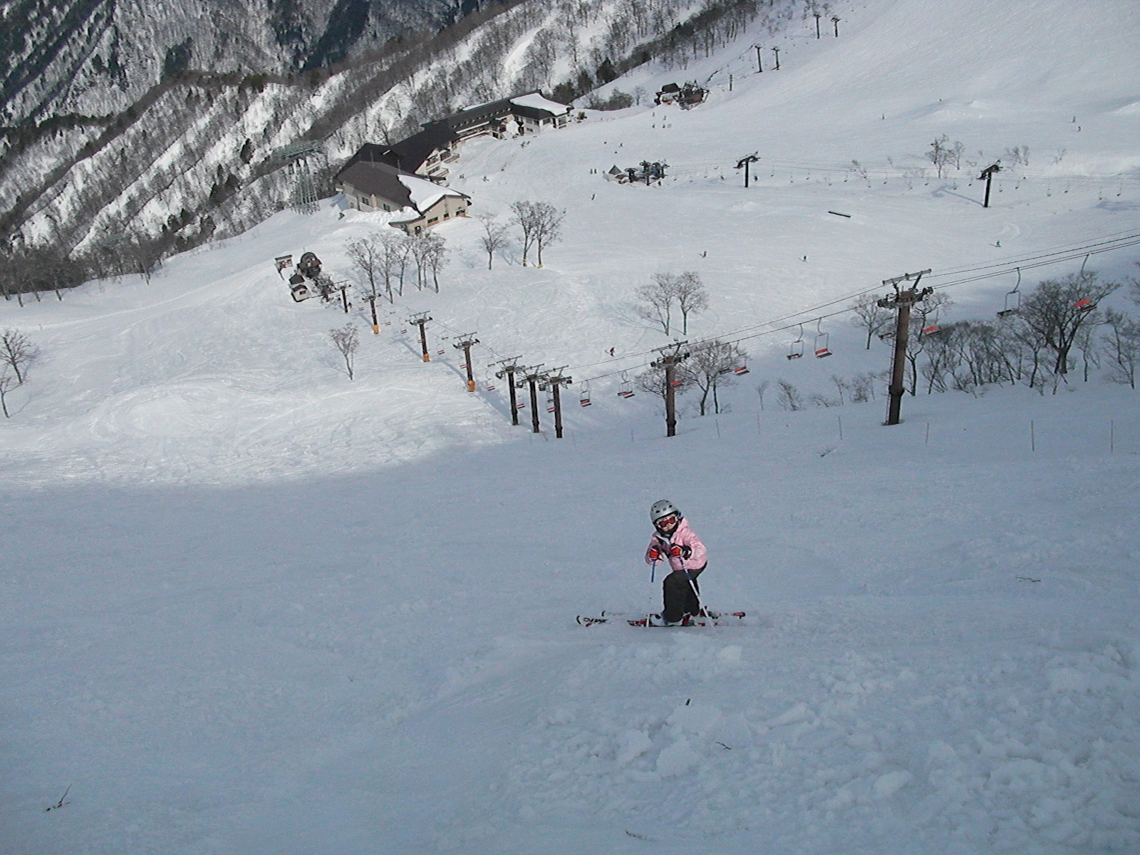 Tenjindaira Ski_area Tenjintouge front-B couse